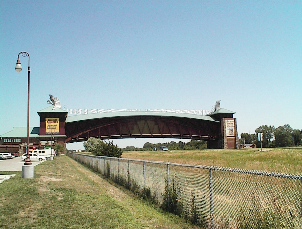 The Great Platte River Road Archway Monument near Kearney, NE. Picture taken by me, Mike Marshall.